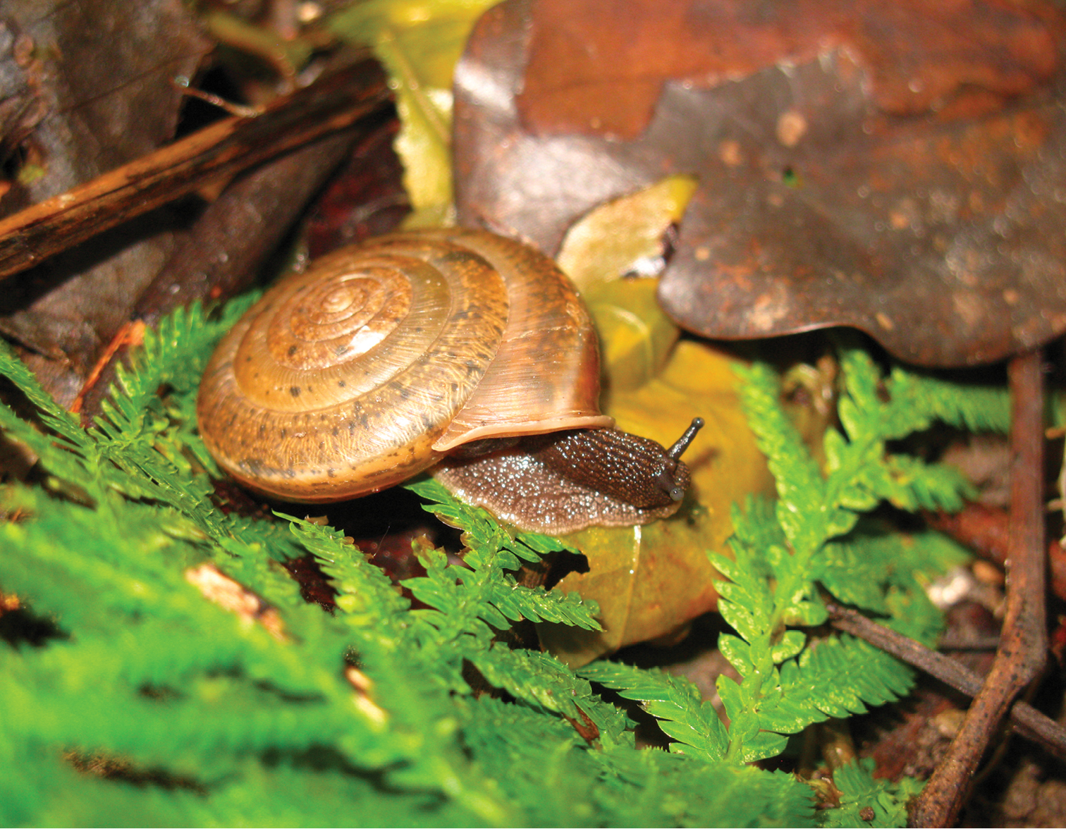 Living snail Aegista diversifamilia sp. n. from Heren, Xiulin Township, Hualien County, Taiwan.